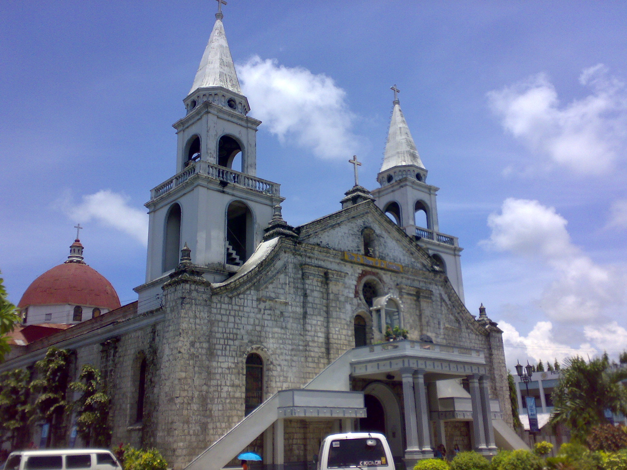 Jaro Cathedral, Jaro district, Iloilo City, Iloilo, Philippines.